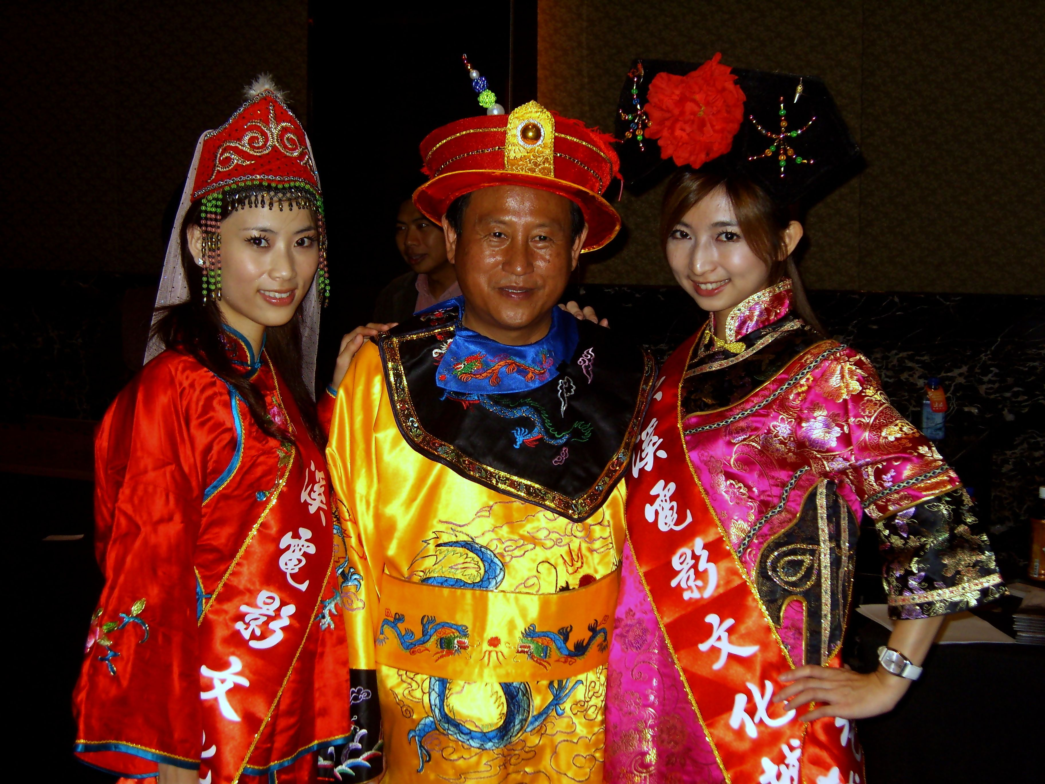 2007 Taipei International Travel Fair - Press Conference: Lio-xi Movie Culture City.中文（台灣）: 2007年台北國際旅展，六溪電影文化城（白河台灣電影文化城前身）記者會。中央扮清朝皇帝者為六溪電影文化城董事長林士榮。